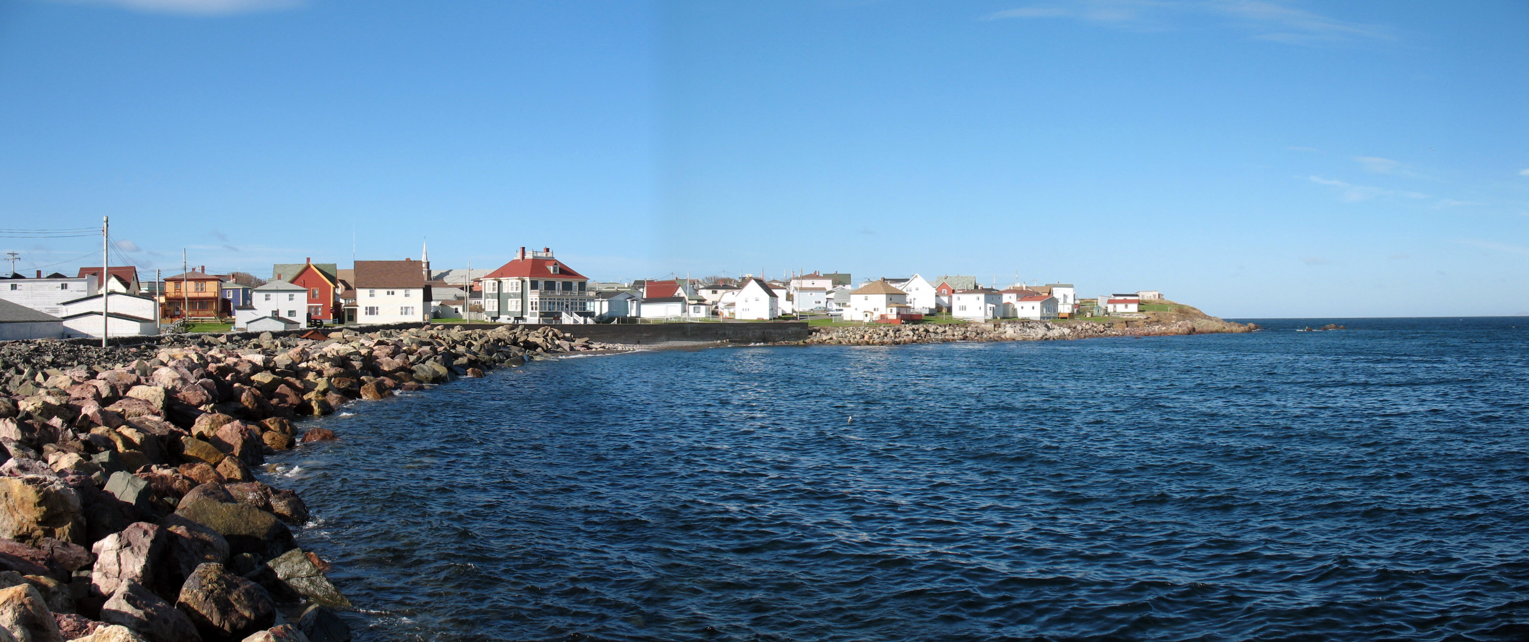 Grand Bank, October 2006